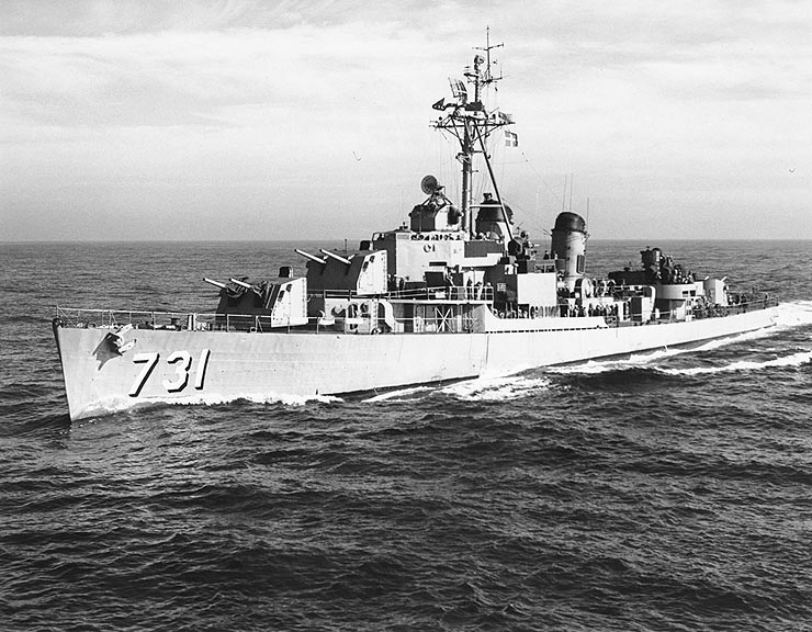 Photo #: NH 97904 - USS Maddox (DD-731) - Underway at sea, 28 January 1955.